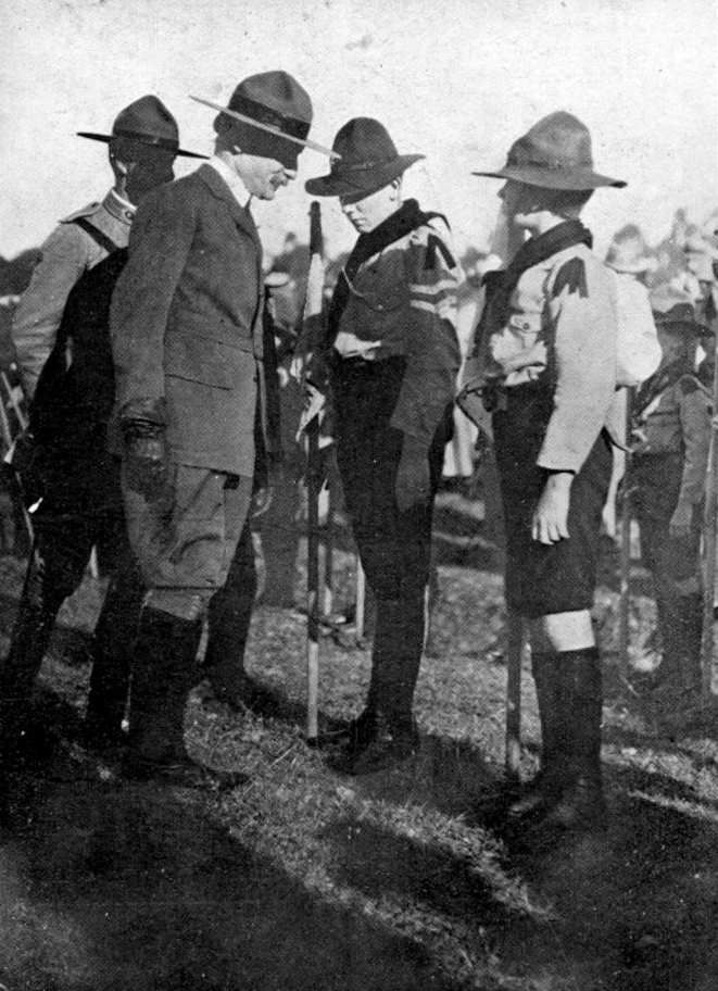 Lord Baden-Powell, founder of the Scouting movement, talking to patrol leaders at Toowong, Brisbane, Queensland, 1911 Caption: 'B.-P.' talking to patrol leaders Byers and Done, of No. 1 Kangaroo Point Troop, 1911; Chief Scoutmaster C. S. Snow standing by.